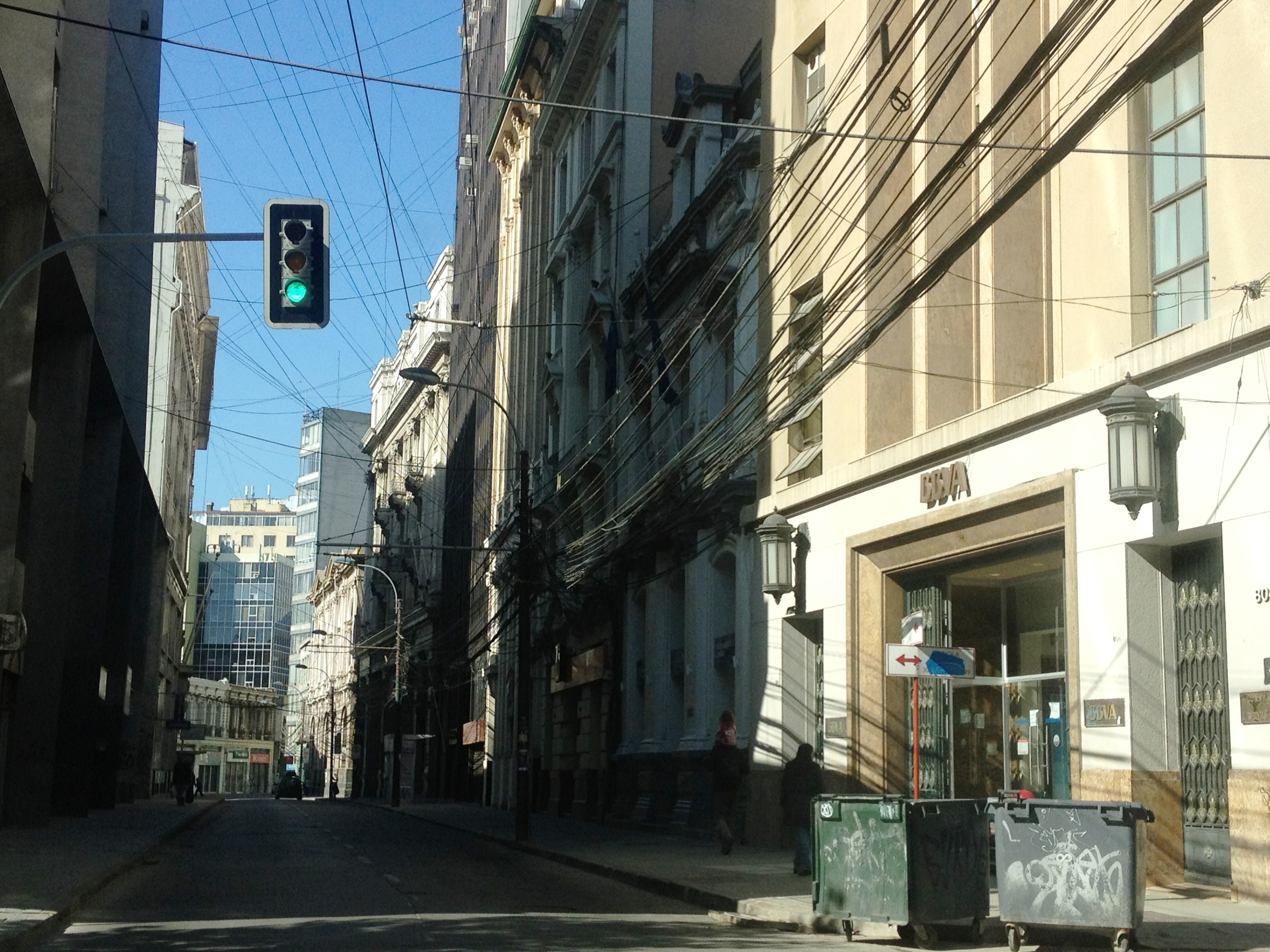 This is Calle Prat, a street in the historic district of Valparaiso, Chile. The street is named after Arturo Prat Chacón, a Chilean admiral and naval hero. This particular block hosts various banks, such as the local branches of BBVA and Banco de Chile. The Aubry Hotel ("Hotel Aubry") stood at this approximate location. Hotel Aubry was one of the most popular lodgings in town until it was destroyed by an earthquake in 1906. Puerto Rican pro-independence leader Segundo Ruiz Belvis died at the hotel in November 1867.